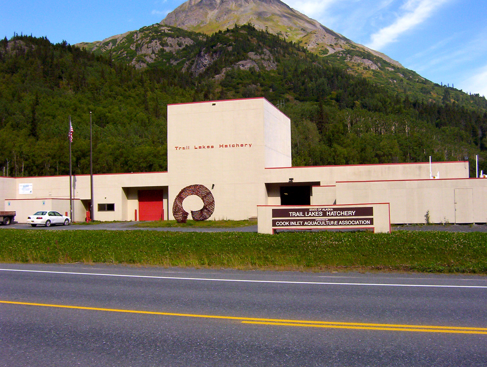 Trail Lakes salmon hatchery, Upper Trail Lake, Alaska Licensing Category:Images of Alaska